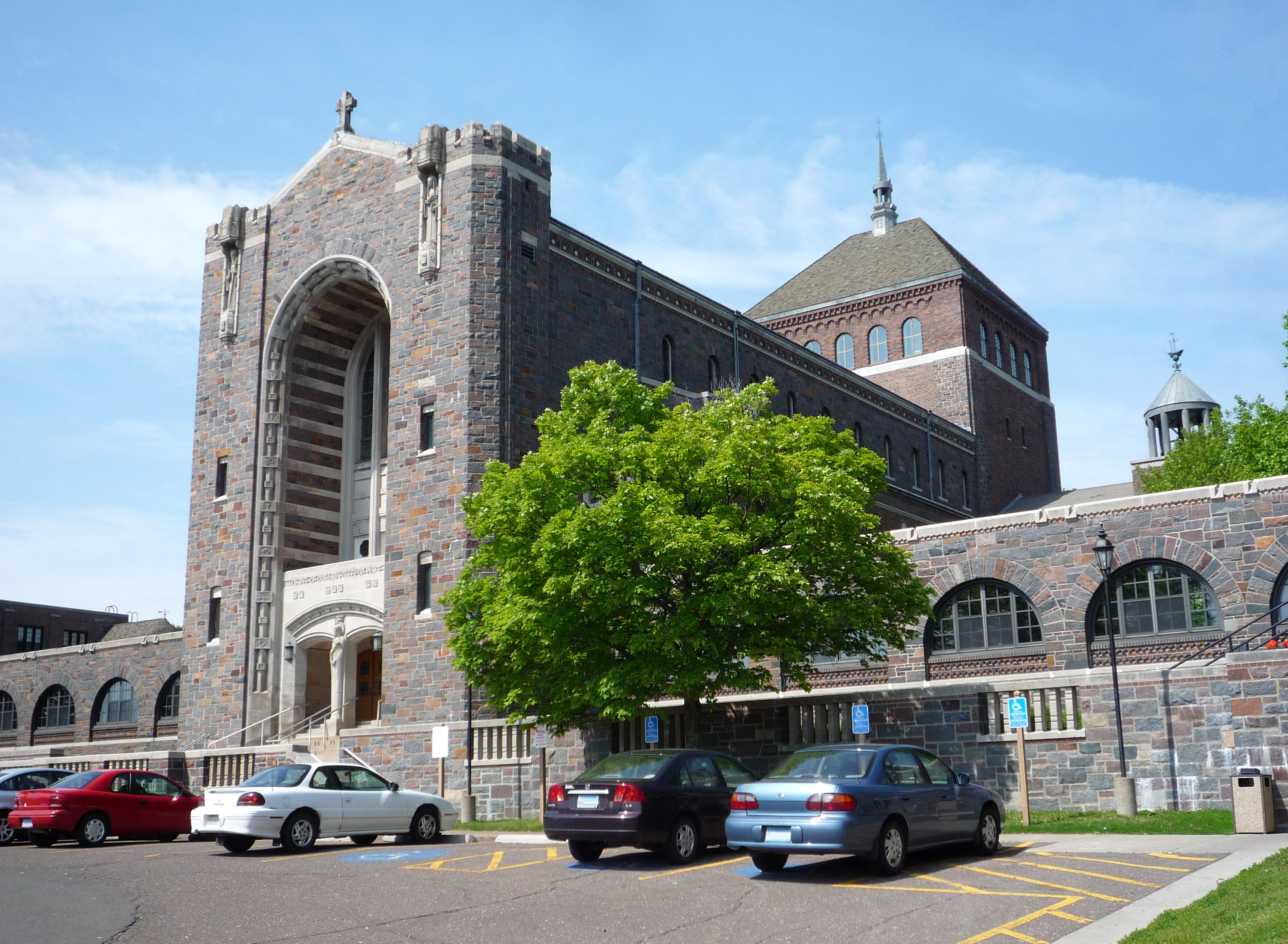 Our Lady Queen of Peace Chapel, The College of St. Scholastica, Duluth, Minnesota, USA.